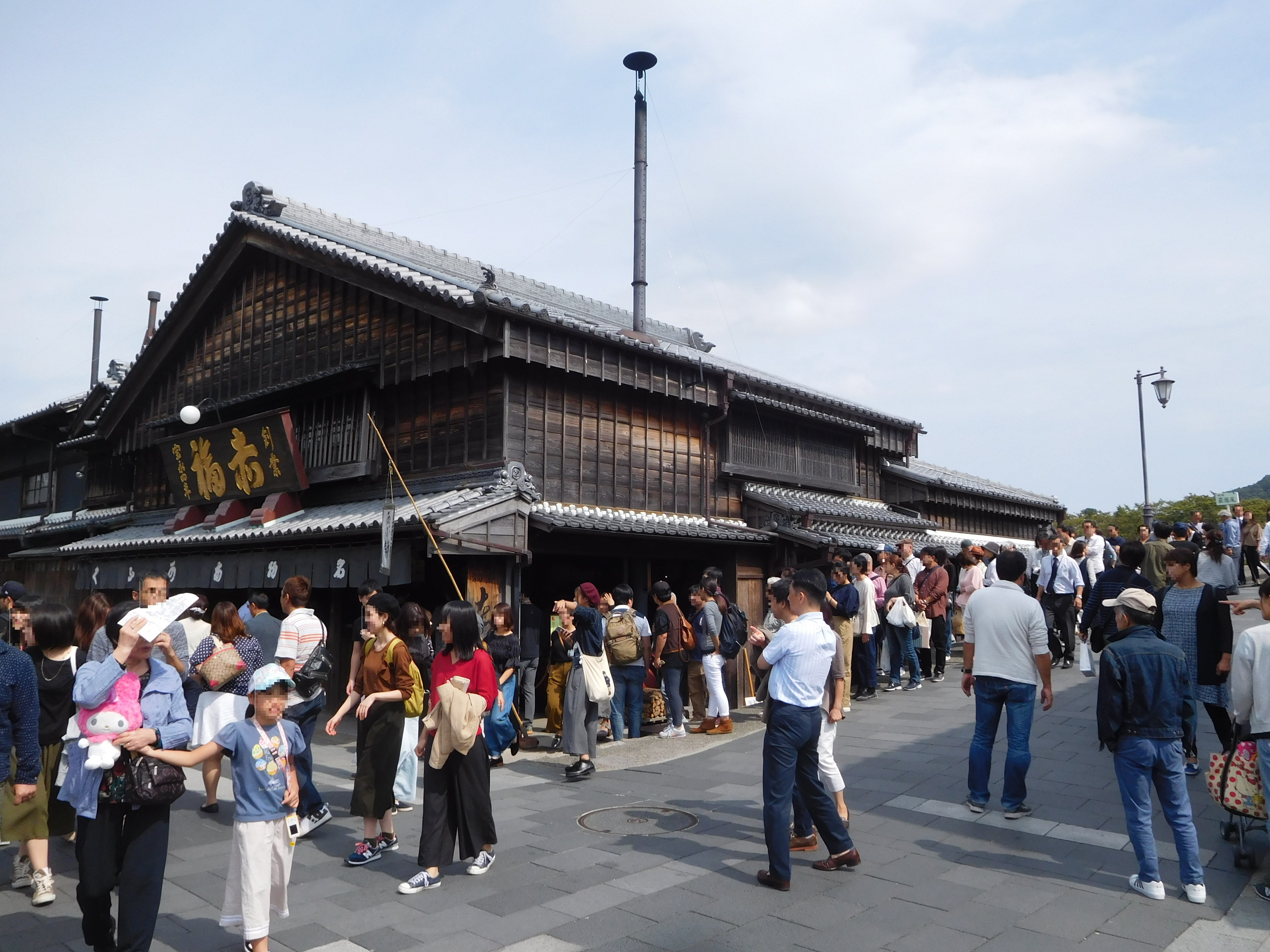 This is a queue to buy Tsuitachi Mochi at Akafuku Honten in Ise, Mie, Japan.